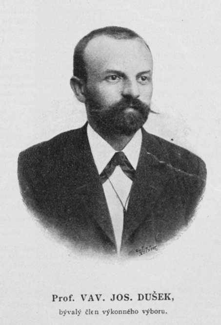 Portrait of Vavřinec Josef Dušek (1858-1911), Czech high school professor, historian, ethnographist and translator.